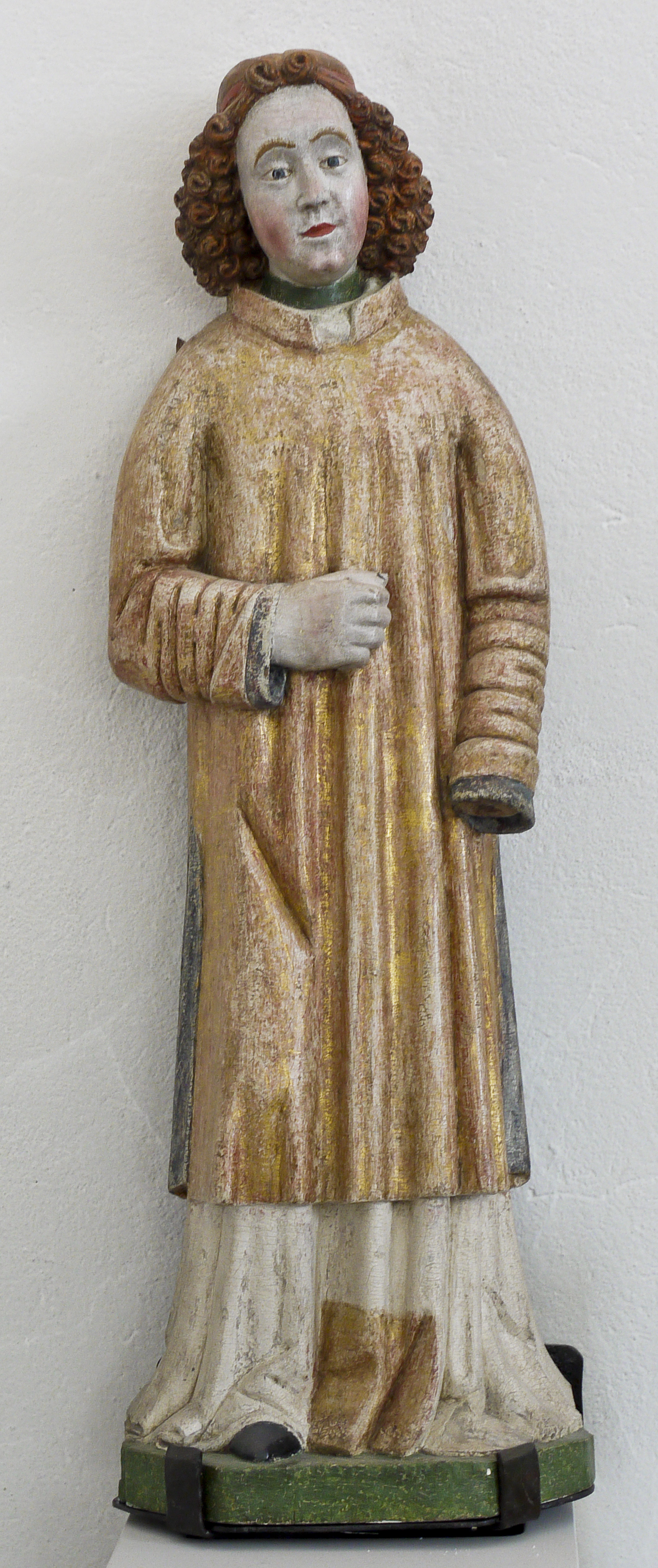 Skellefteå landsförsamlings kyrka, Diocese of Luleå, Skellefteå, Sweden. Michael (archangel). Middle of 15th century.